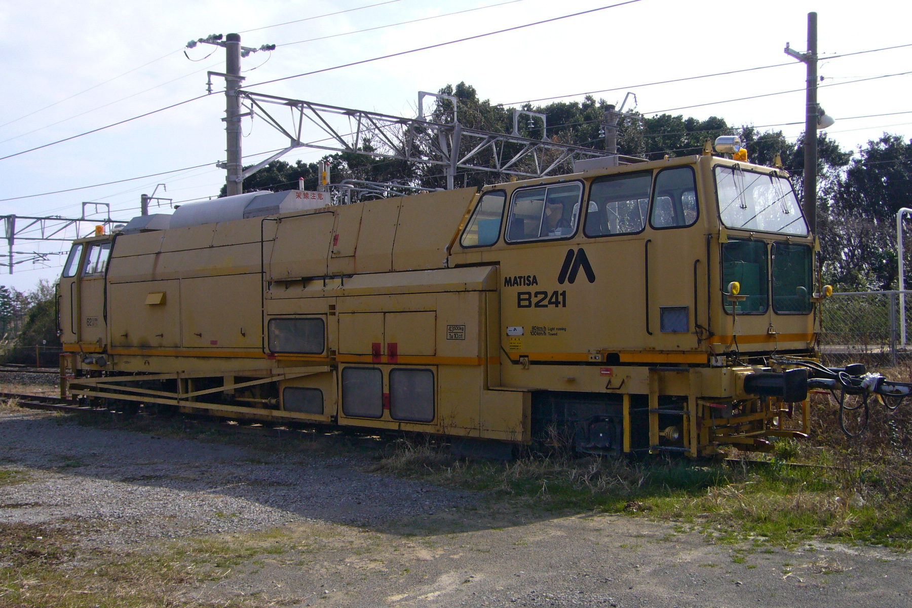 Ballast tamper MATISA B241, Minabe, Wakayama prefecture, Japan